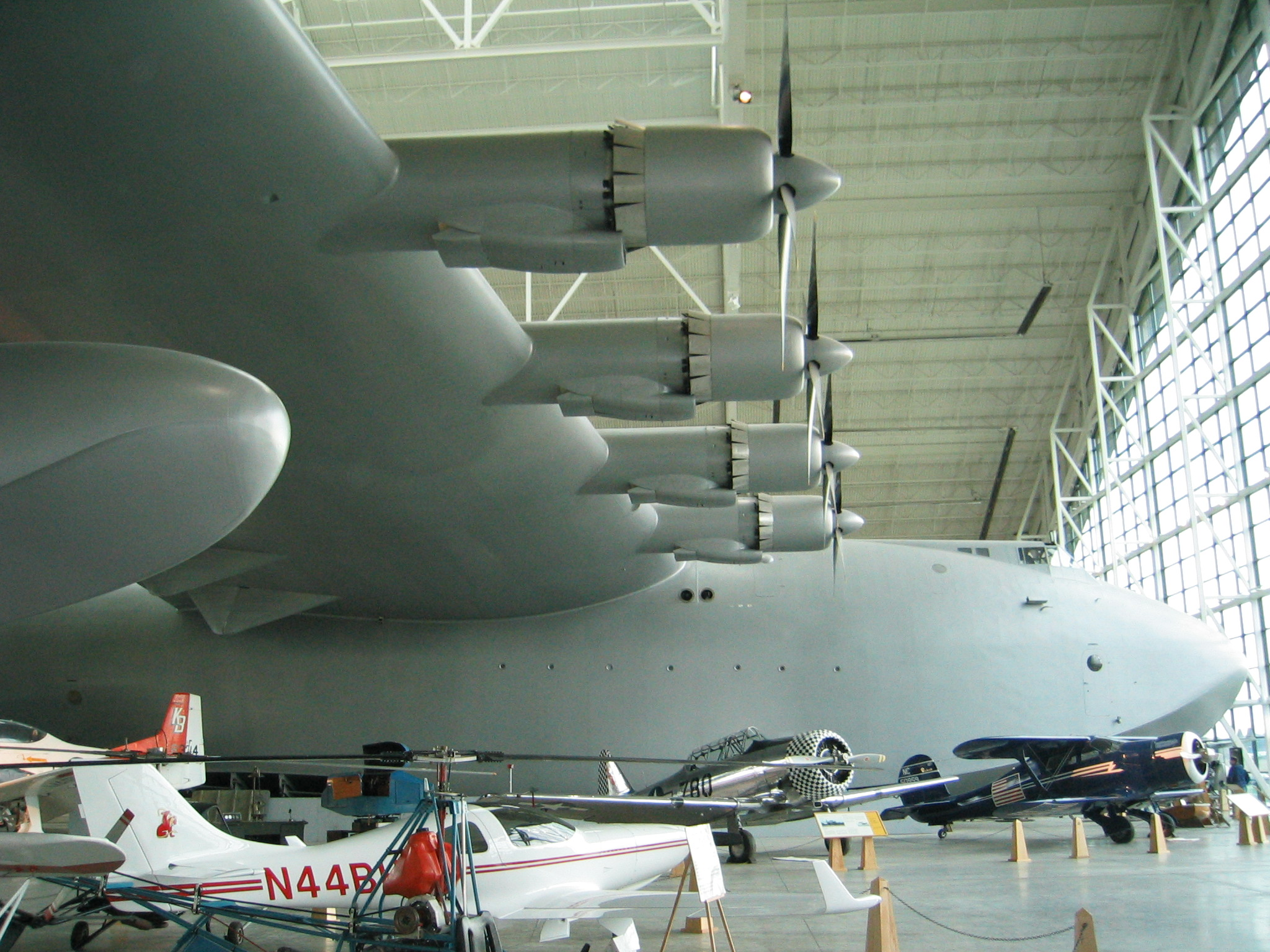 Starboard side of H-4 Hercules Inc. (Spruce Goose) and at the right of main wing and engines. The hugeness of H-4 can be actually felt compared with the aircraft that has been exhibited forward.